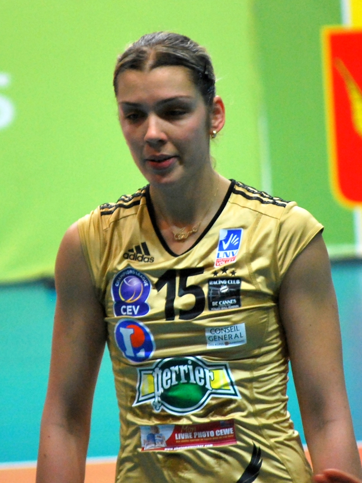 Anja Spasojević, volleyball player from Serbia